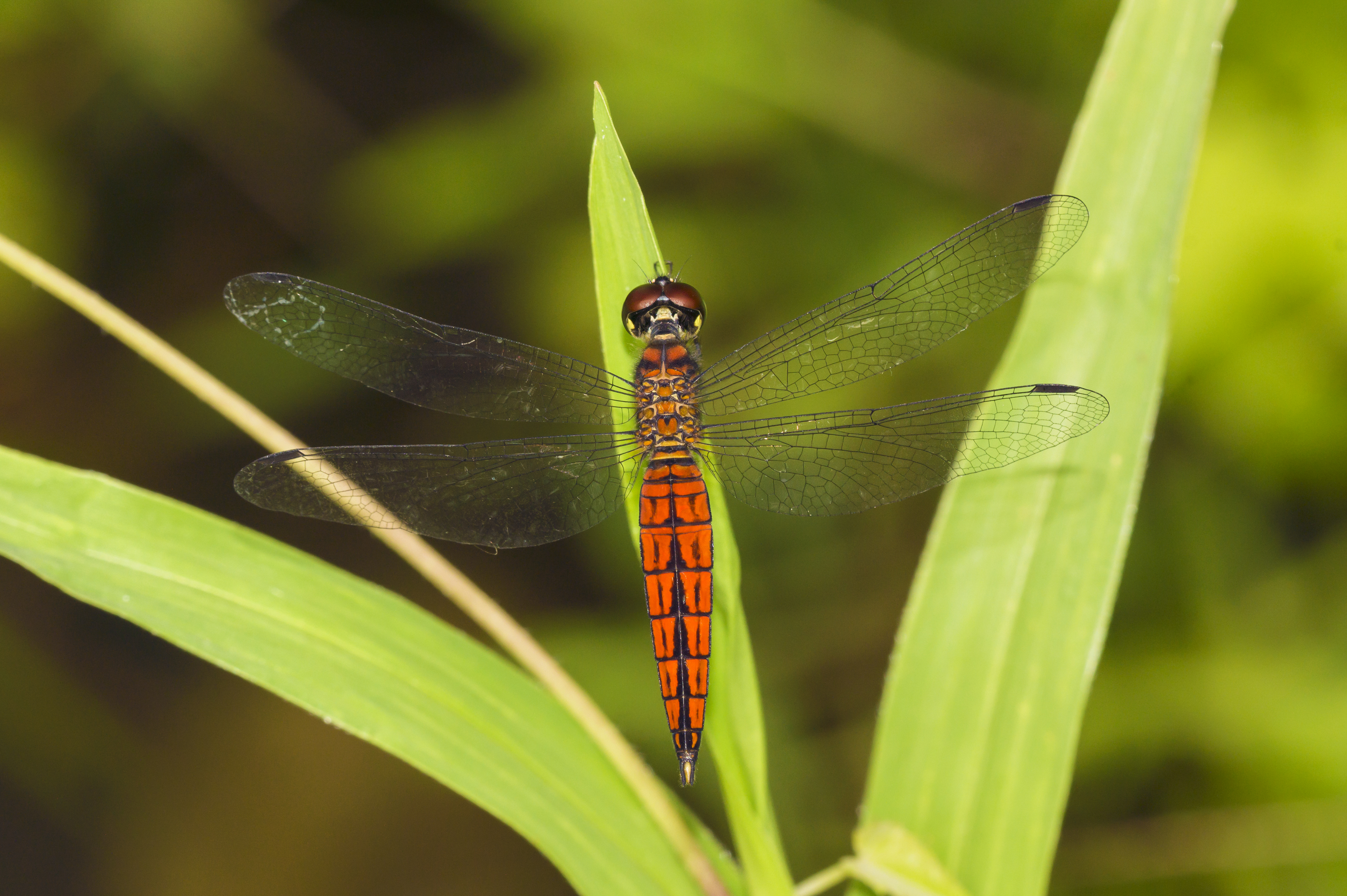 Lyriothemis acigastra, Little Bloodtail. Ref: (ID confirmed by VC Balakrishnan and KG Emiliyamma.)